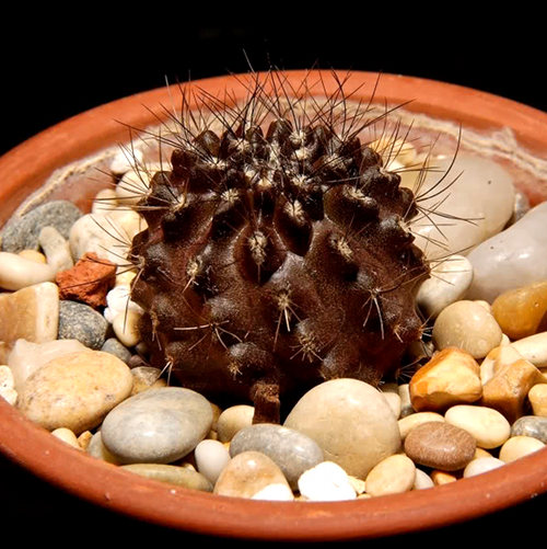 Eriosyce crispa